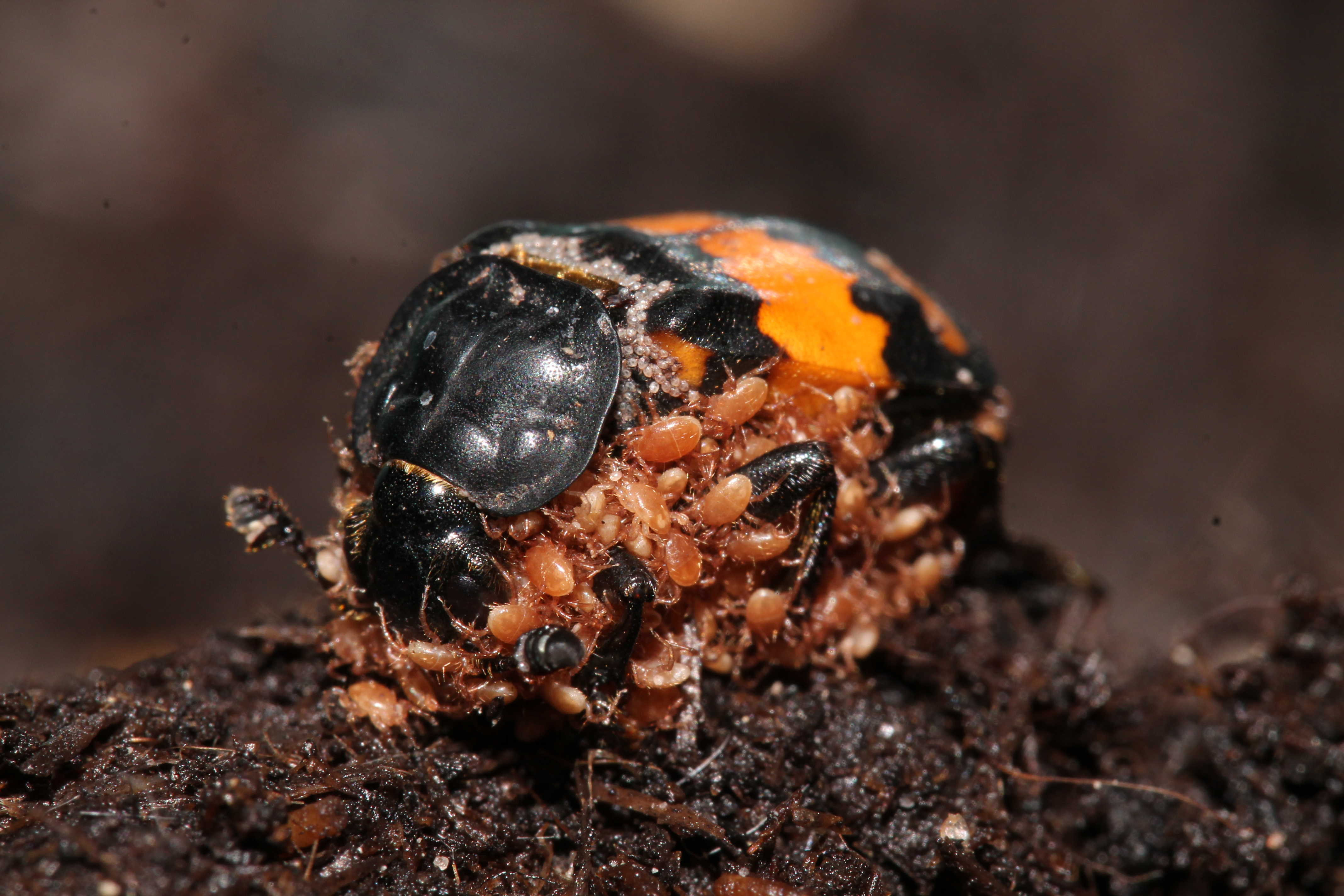 A adult burying beetle carrying phoretic mites